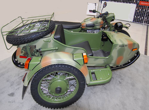 Ural "Patrol" with two-wheel drive Photo © by Jeff Dean